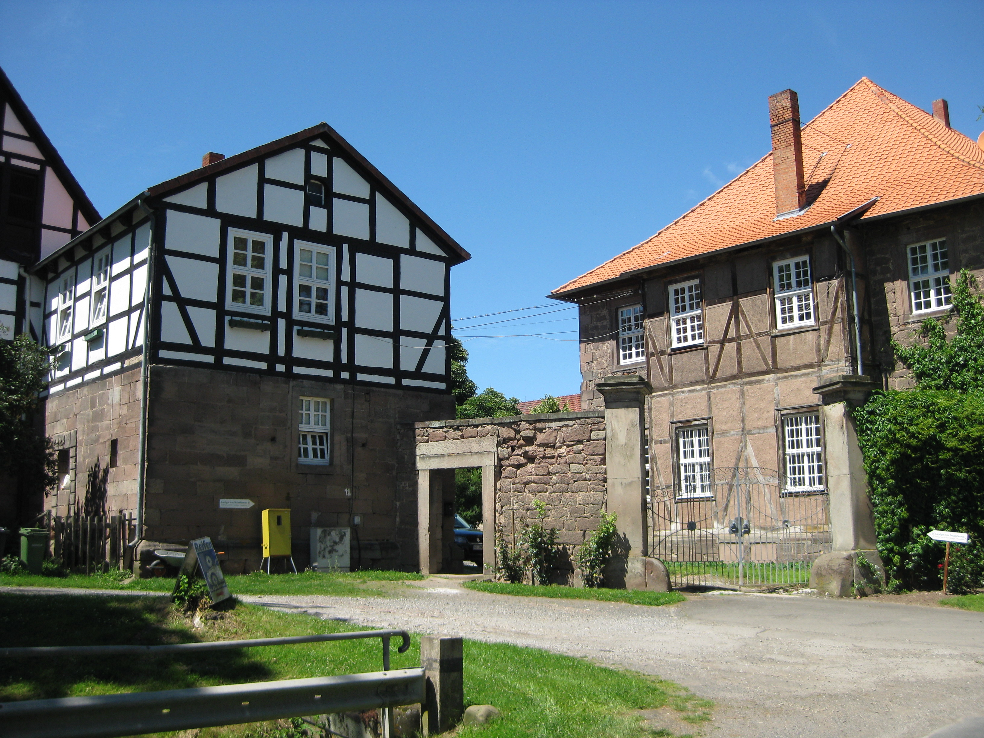 Agricultural buildings of Bodenhausen manor in Niedergandern, part of Friedland municipality in souther Lower Saxony.